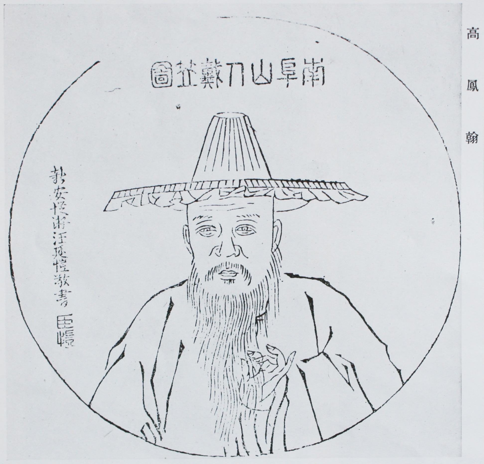 Gao Fenghan (1683-1749 painter) Portrait, Woodblock Print